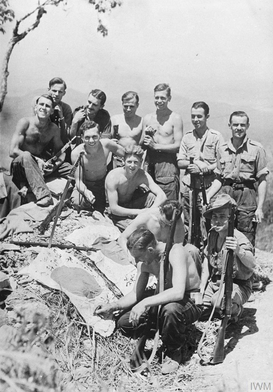 The Second World War 1939 - 1945- the War in the Far East 1941 - 1945 Men of the Devonshire Regiment sign their autographs on Japanese flags captured at Nippon Ridge during the Battle of Imphal-Kohima, March - July 1944. The battle resulted from a Japanese Operation 'U-GO' designed to drive the British and Commonwealth troops back into India. The campaign was ended on 18 July 1944 after which the Japanese were forced onto the defensive.